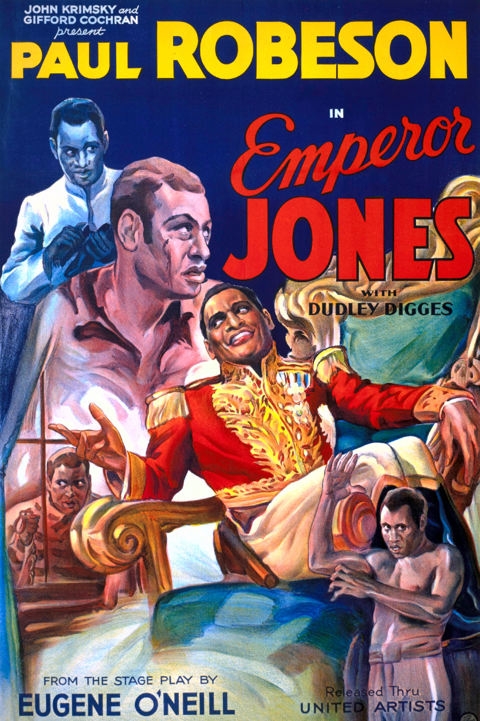 Theatrical release poster of the 1933 American film The Emperor Jones.